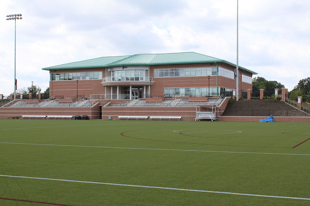 US Lacrosse headquarters, featuring the IWLCA Building, Tierney Field and the National Lacrosse Hall of Fame and Museum.